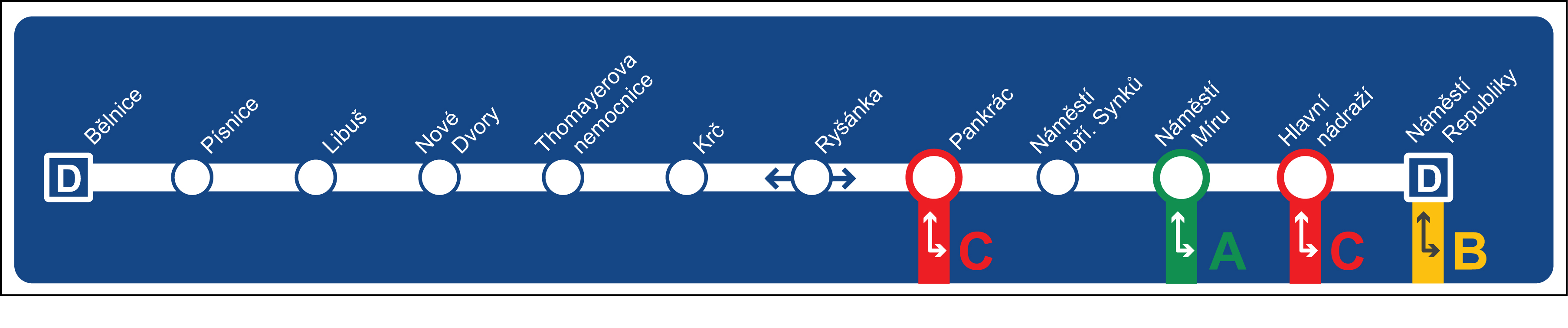 A scheme of prague's metro line D in future (about year 2030)